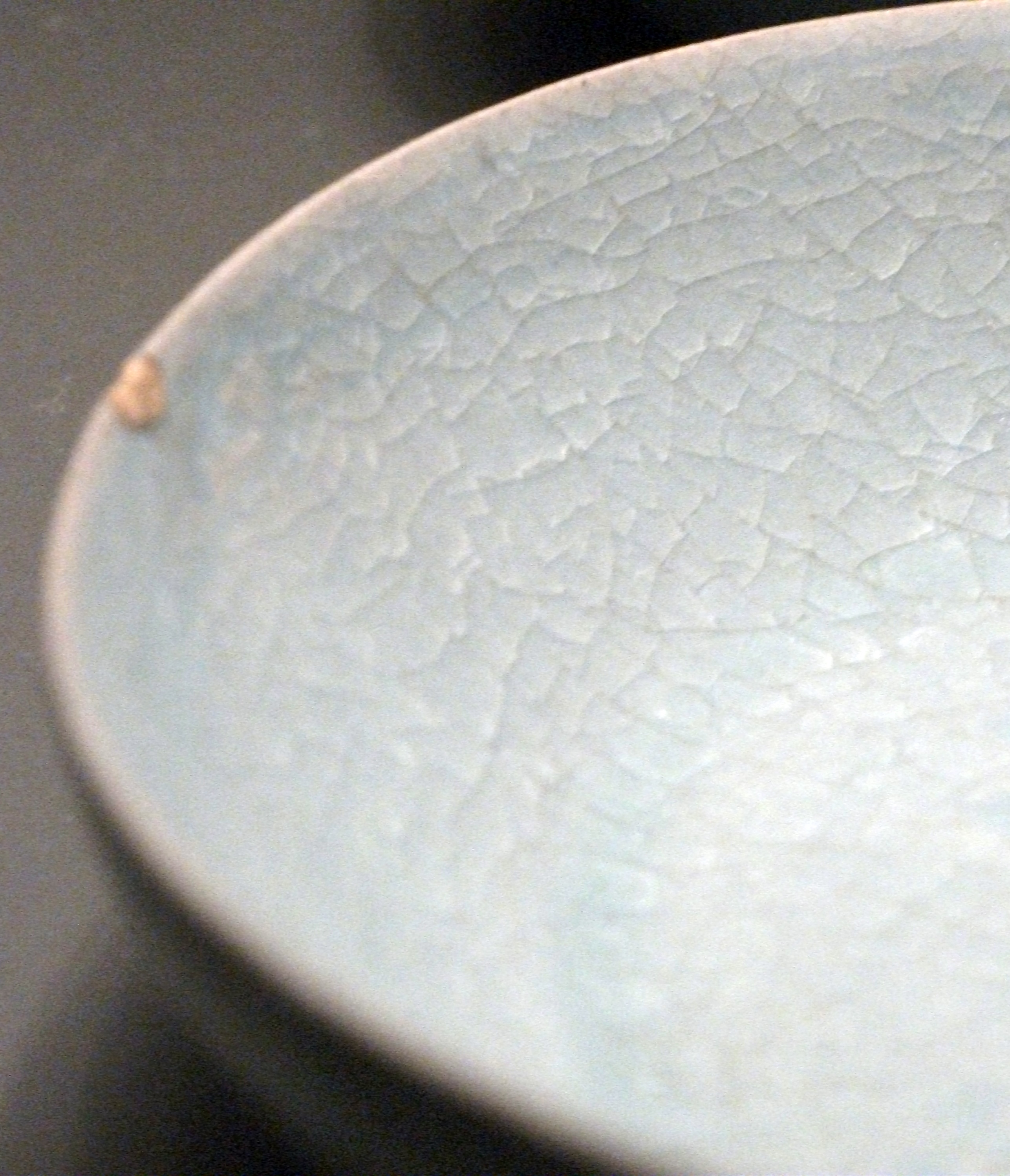 Ru ware, Percival David Collection, British Museum, Room 95